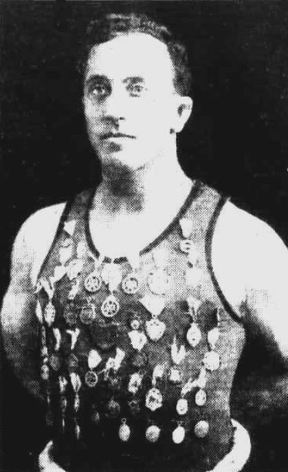 Original Caption: Billy Meeske, who defies Joe Bailey and his claim to the Heavyweight Wrestling Championship of Australia